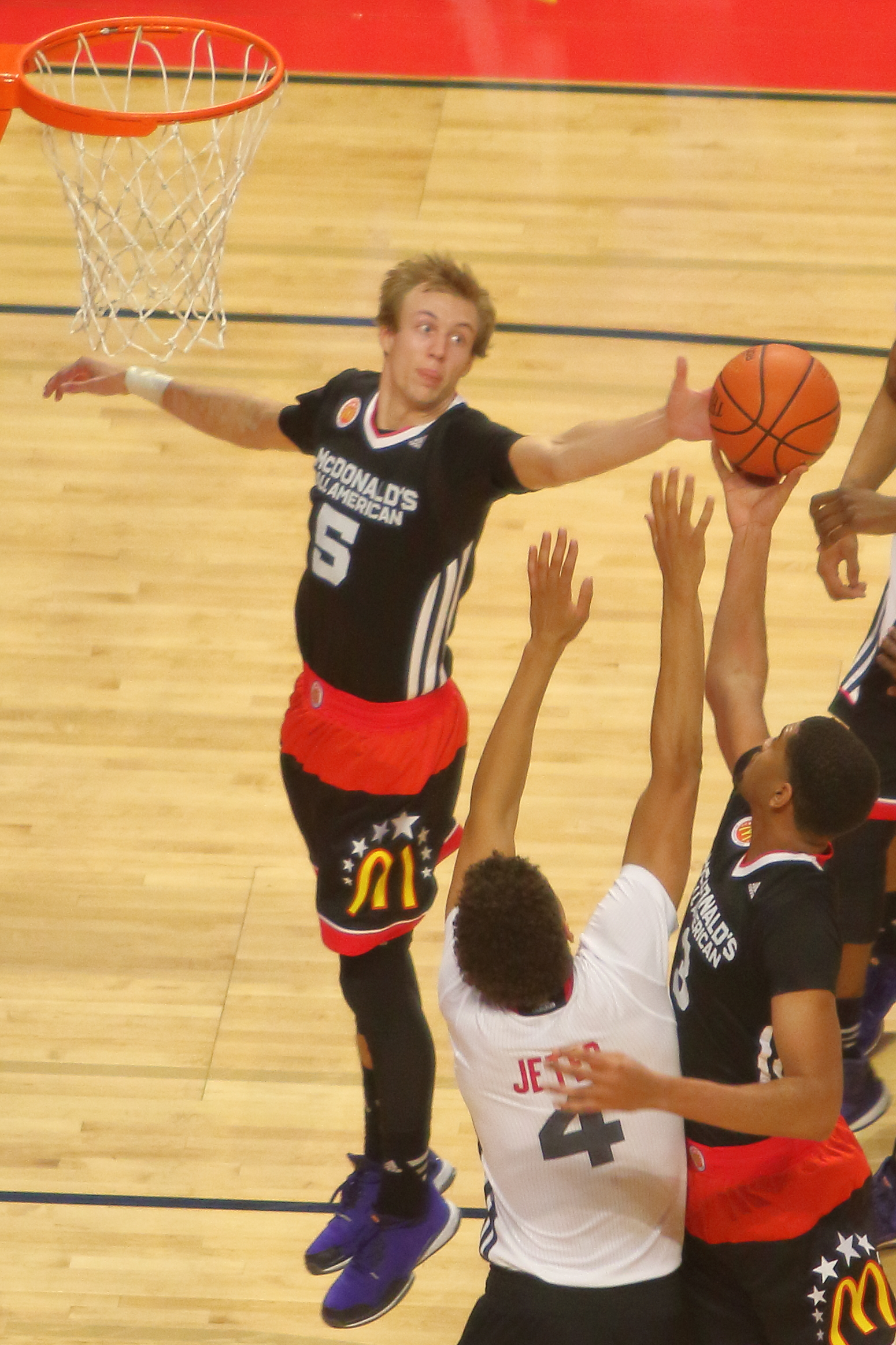 Luke Kennard in the w:2015 McDonald's All-American Boys Game